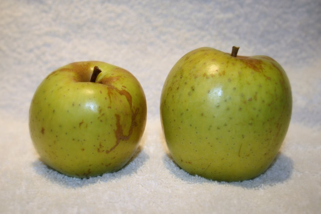 French Apple cultivar "Pomme de l'estre"